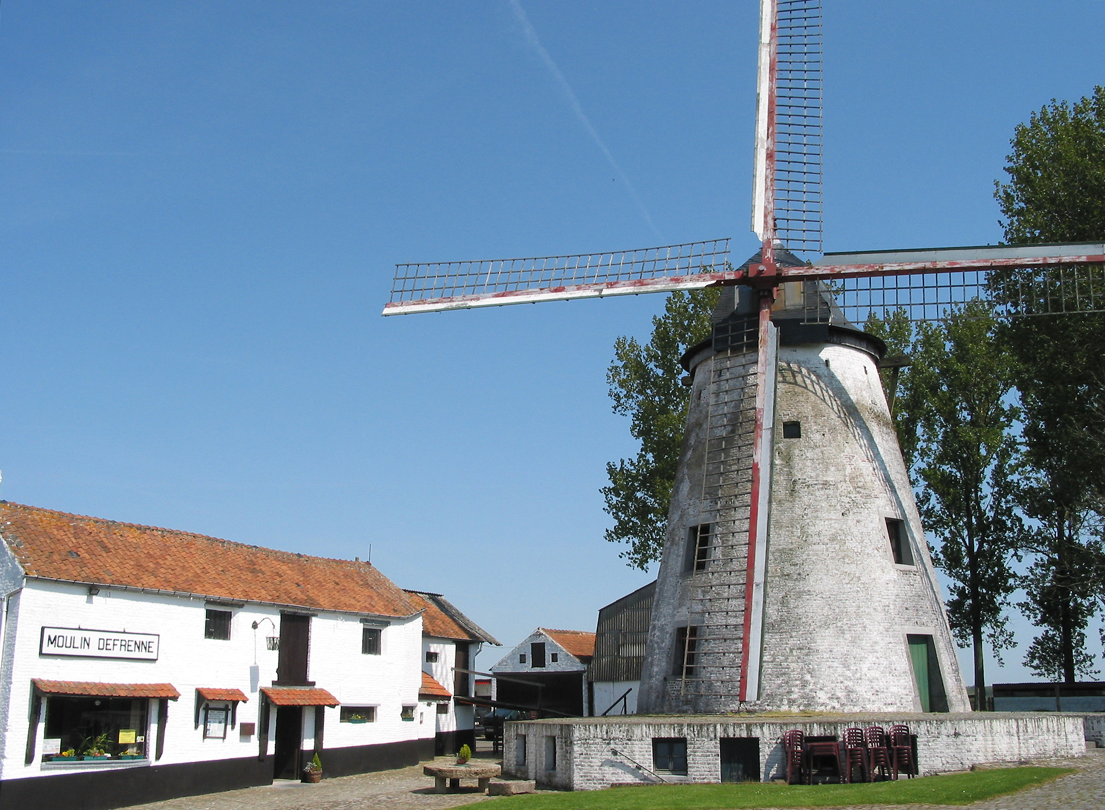 Grand-Leez, the "Defrenne" windmill (1786). Walon: Grand-Lé, li molin Defrenne (1786).